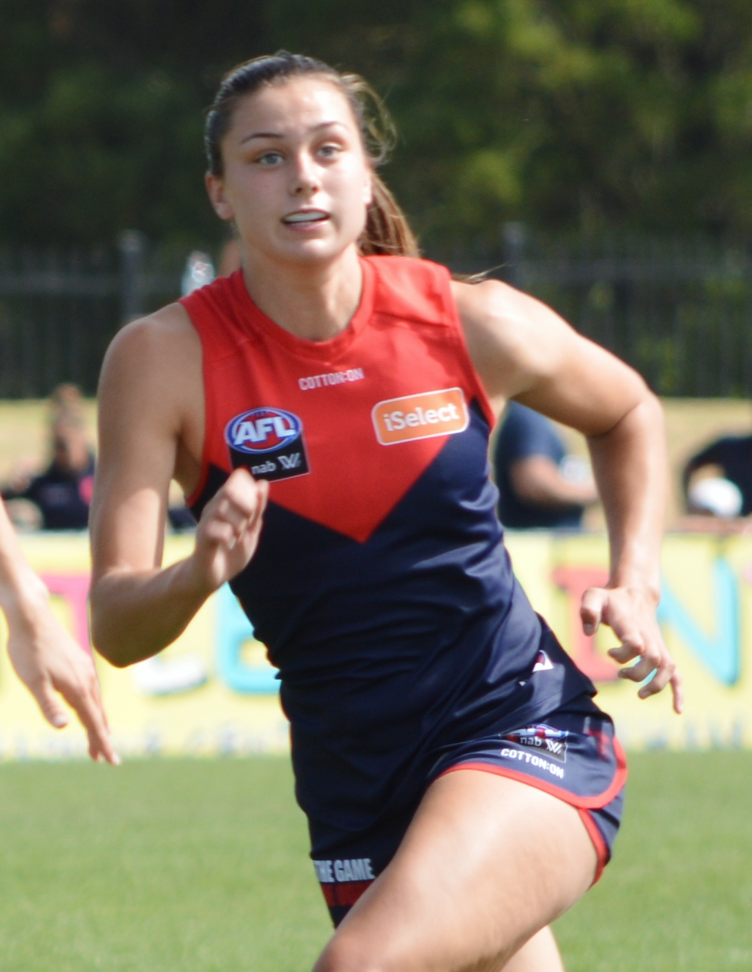 Claudia Whitfort with Melbourne during an AFLW practice match against North Melbourne at Casey Fields on 19 January 2019.